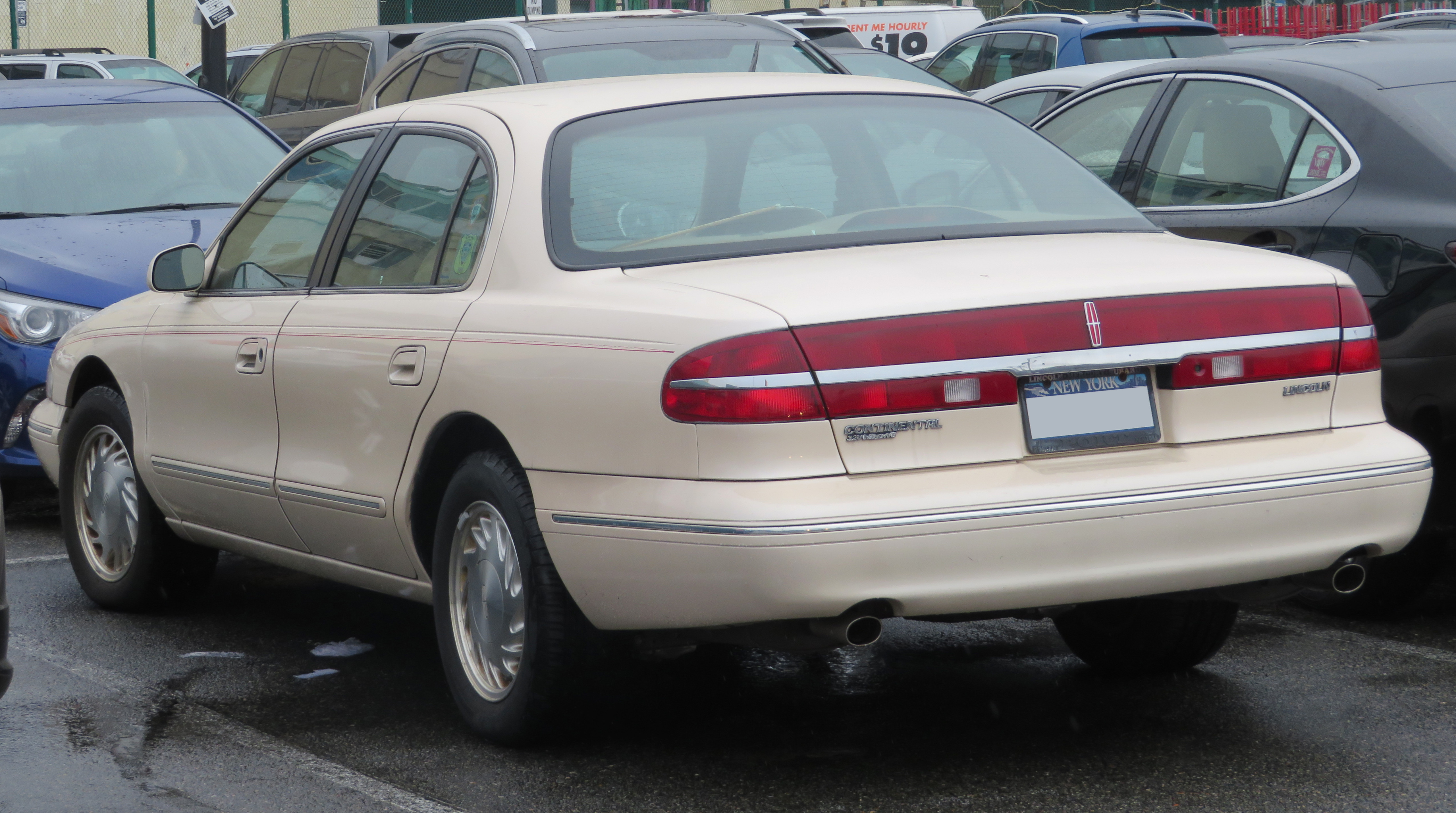 A 1996 Lincoln Continental photographed in Flushing, Queens, New York, USA